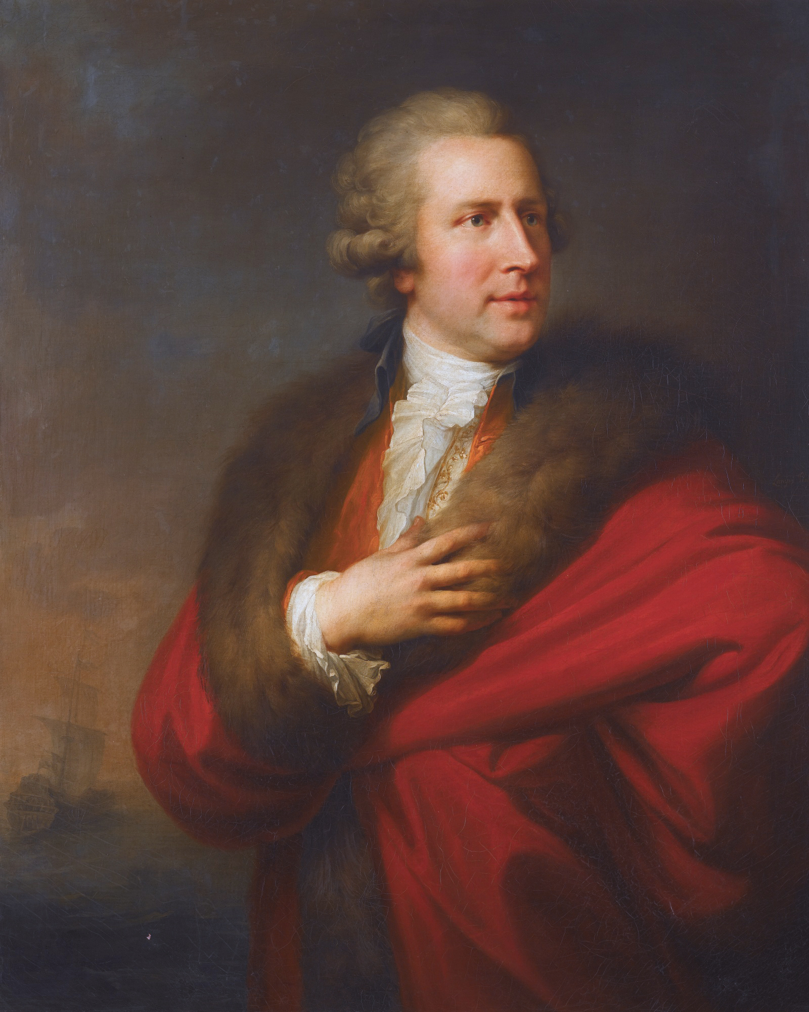 Charles Whitworth, later 1st Earl of Whitworth (1752-1825) oil on canvas 98.5 x 79.2 cm signed c.r.: Lampi Pinx. after 1789